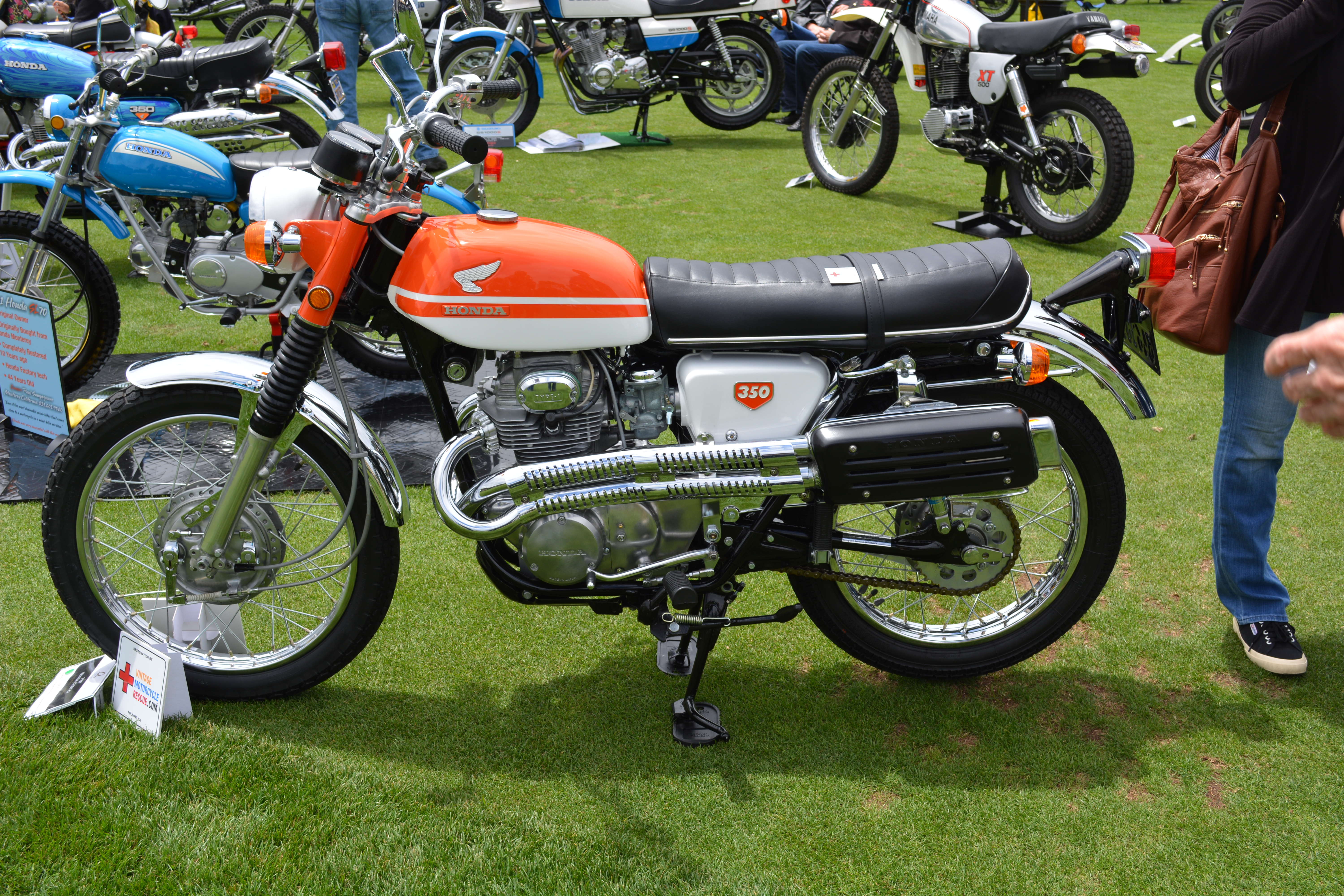 The Quail Motorcycle Gathering 2015, Carmel by the Sea, CA